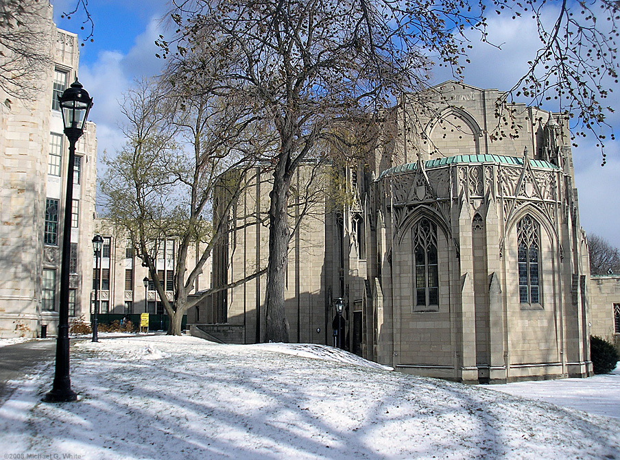 The University of Pittsburgh's Stephen Foster Memorial , photo by Michael G. White